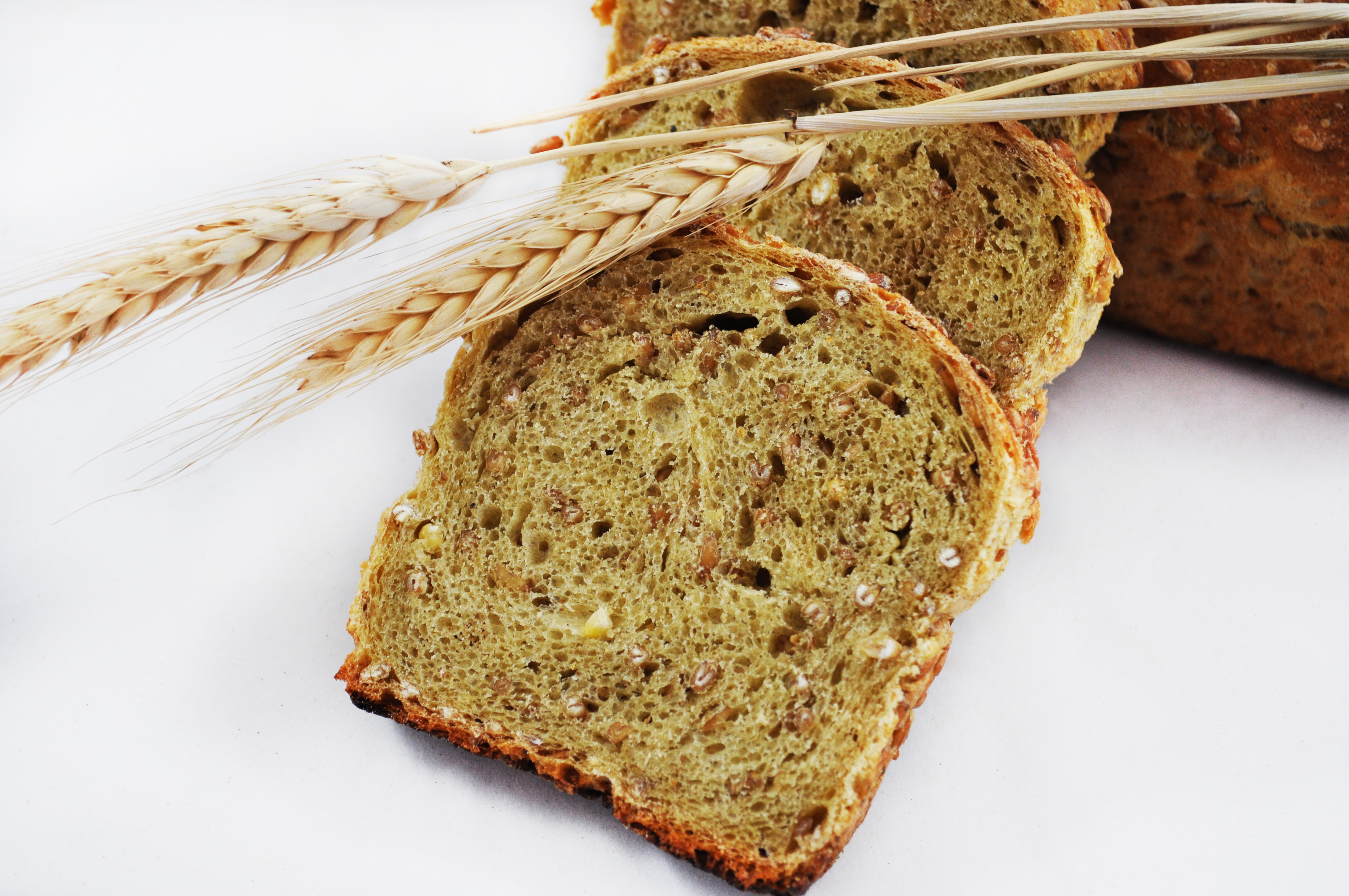 Produits